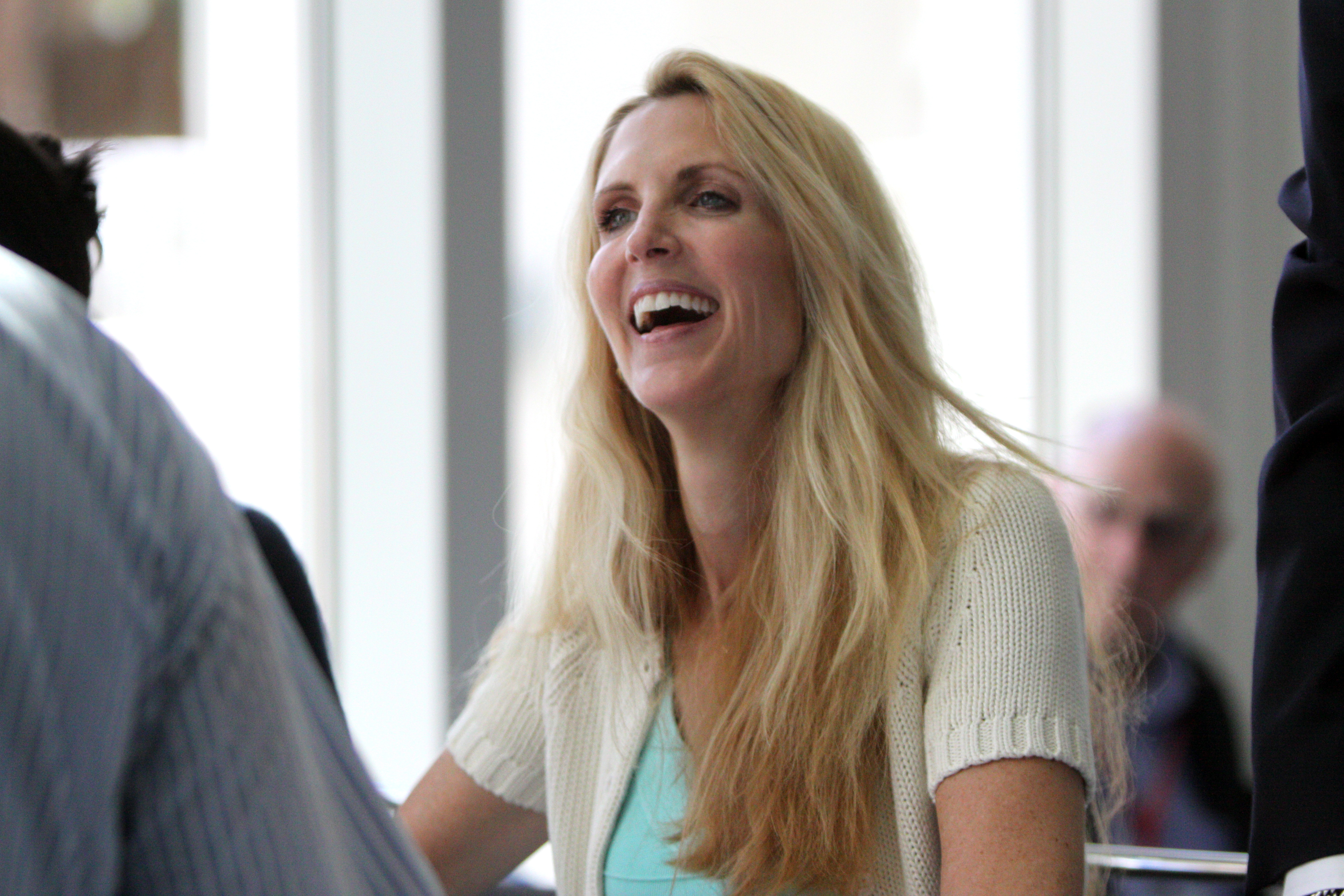 Ann Coulter at a book signing at CPAC FL in Orlando, Florida. Photo by Gage Skidmore.